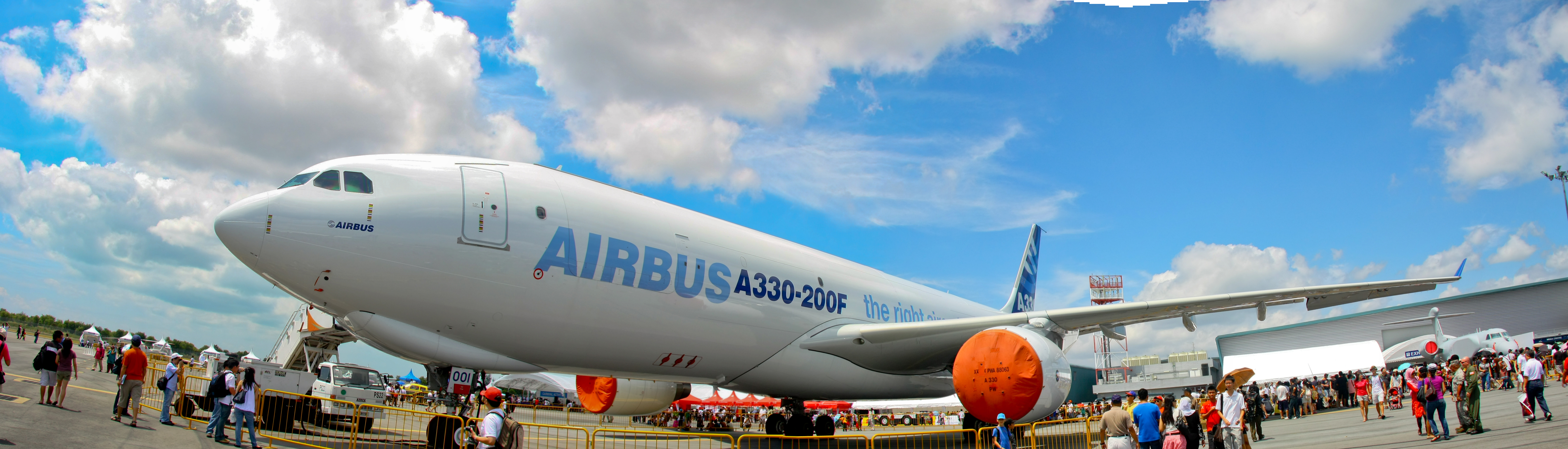 Singapore Airshow 2010